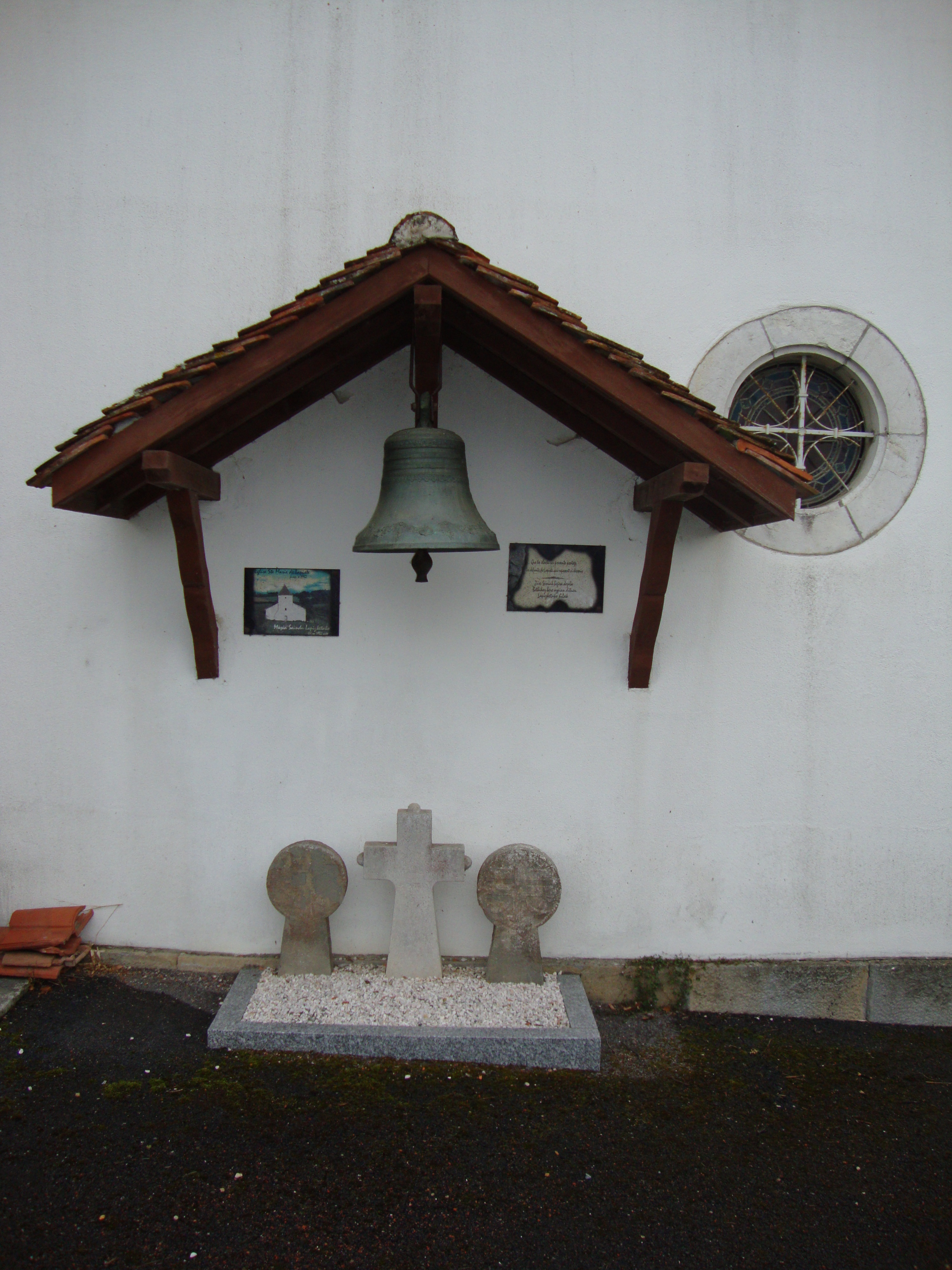 Béhasque_(Béhasque-Lapiste, Pyr-Atl,_Fr) a triplet of steles under a bell. In the Northern basque Country, one sees often triplet of steles on a larger family grave.